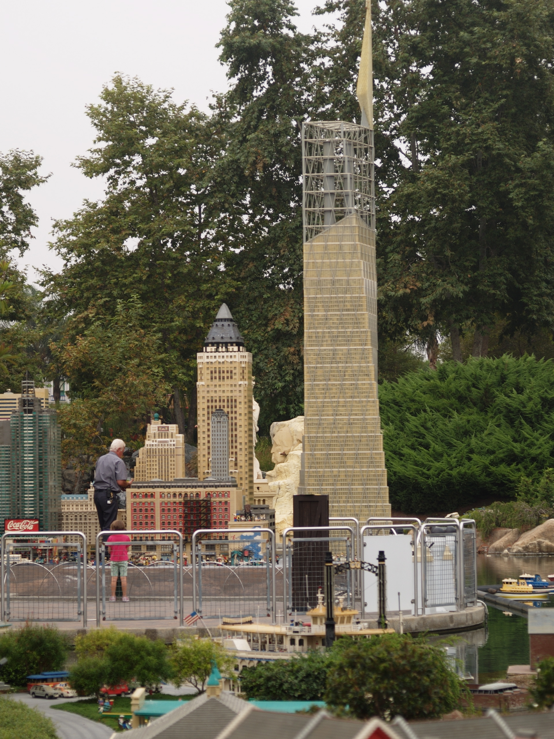 Manhattan Island at Legoland California, showing an older design for the Freedom Tower.